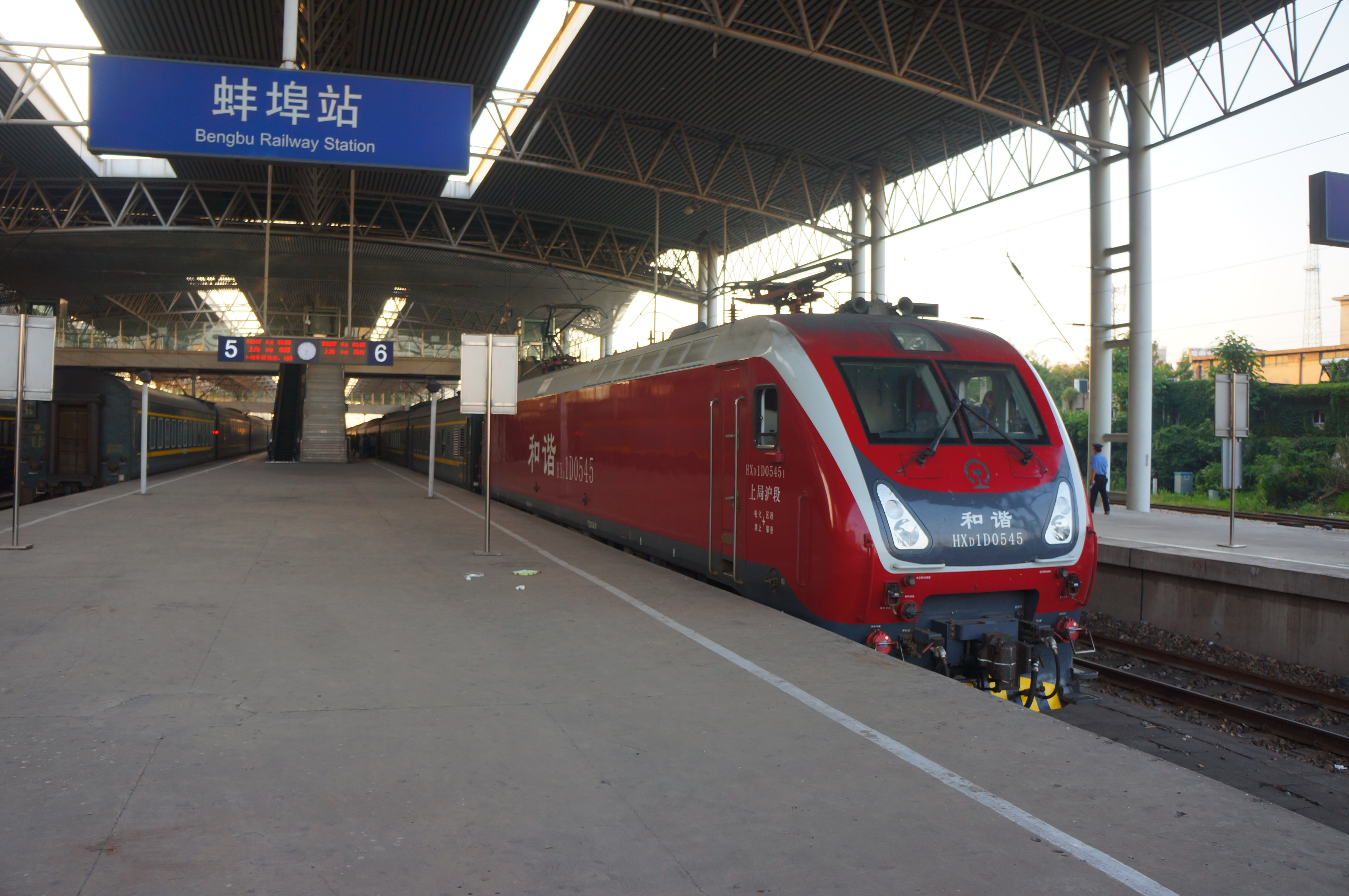 201705 HXD1D-0545 hauls K1506 at Bengbu Station. The DF11 will be connected on the other side.